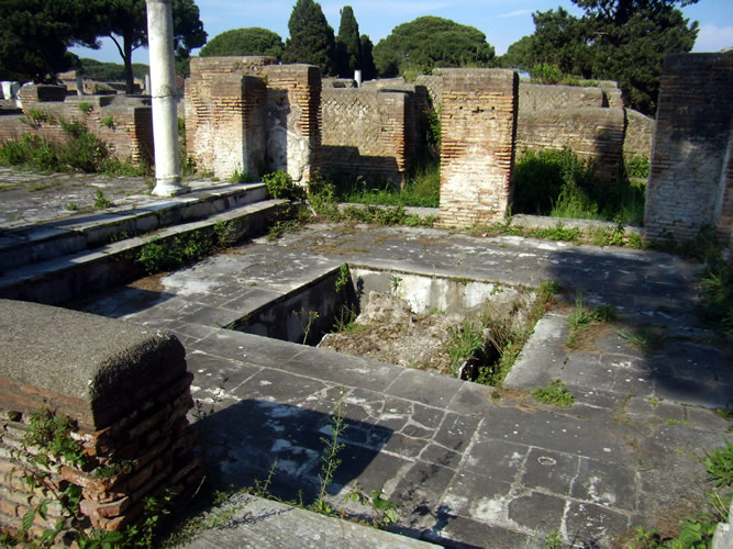 Ostia, Domus del Tempio Rotondo (I,XI,2-3)